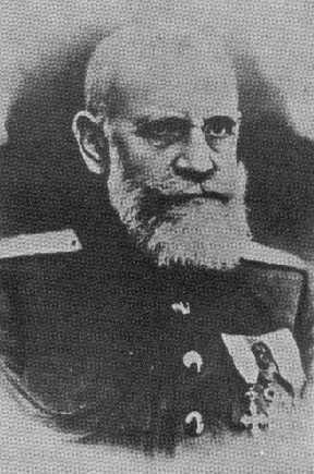 Image of General Gheorghe Cantacuzino-Grănicerul (1869 - 1937), Romanian military and Fascist politician